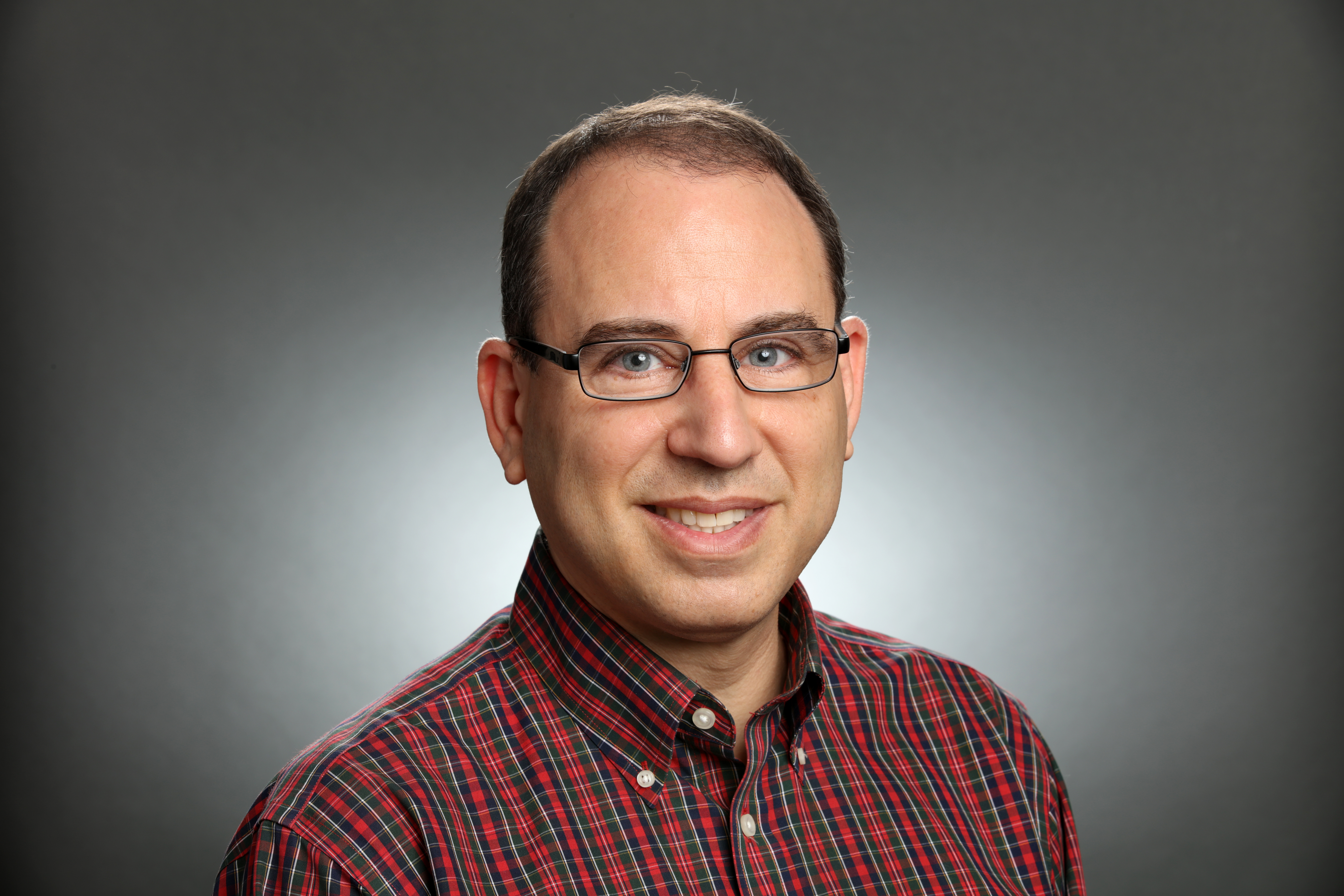 Eric Goldman